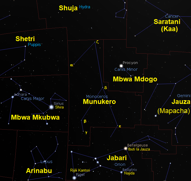 Constellation Monoceros as seen from Tanzania, Swahili labelled Kiswahili: Kundinyota Munukeru (Monoceros) jinsi inavyoonekana kutoka Tanzania, majina kwa Kiswahili